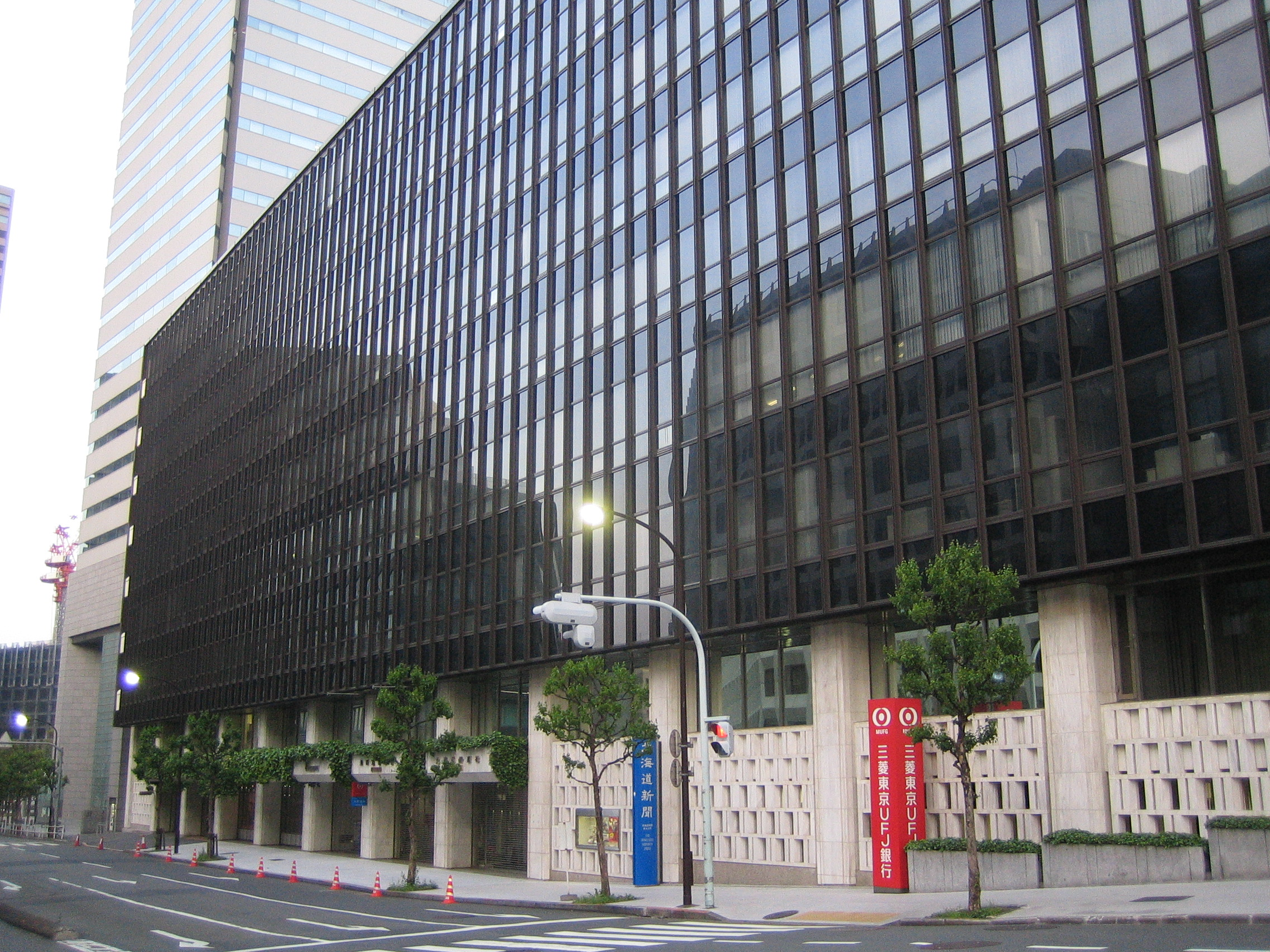 Former head office of Kyodo News, in Minato Ward, Tokyo, Japan